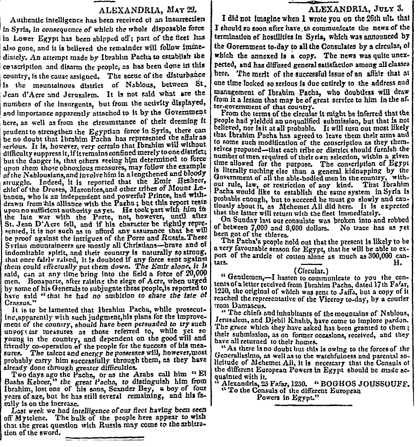 The Times Alexandria Correspondant, 1834 Revolt in Palestine, May 29 1834 and Jul 3 1834